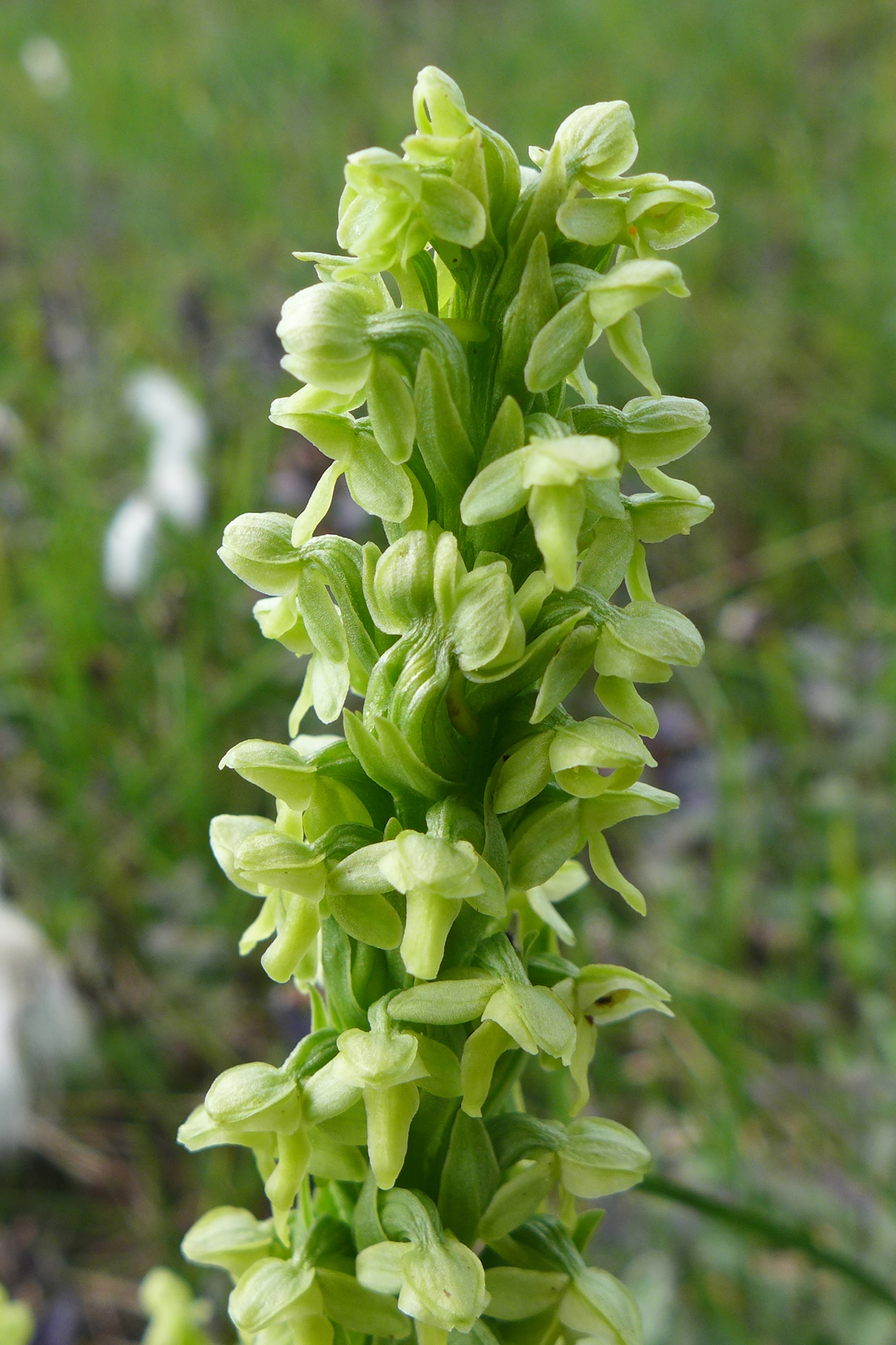 Platanthera flava var herbiola - northern tuberculed orchid - Hornstrandir, Iceland - Ísafjarðarbær, Vestfirðir, IS, Northwest Passage